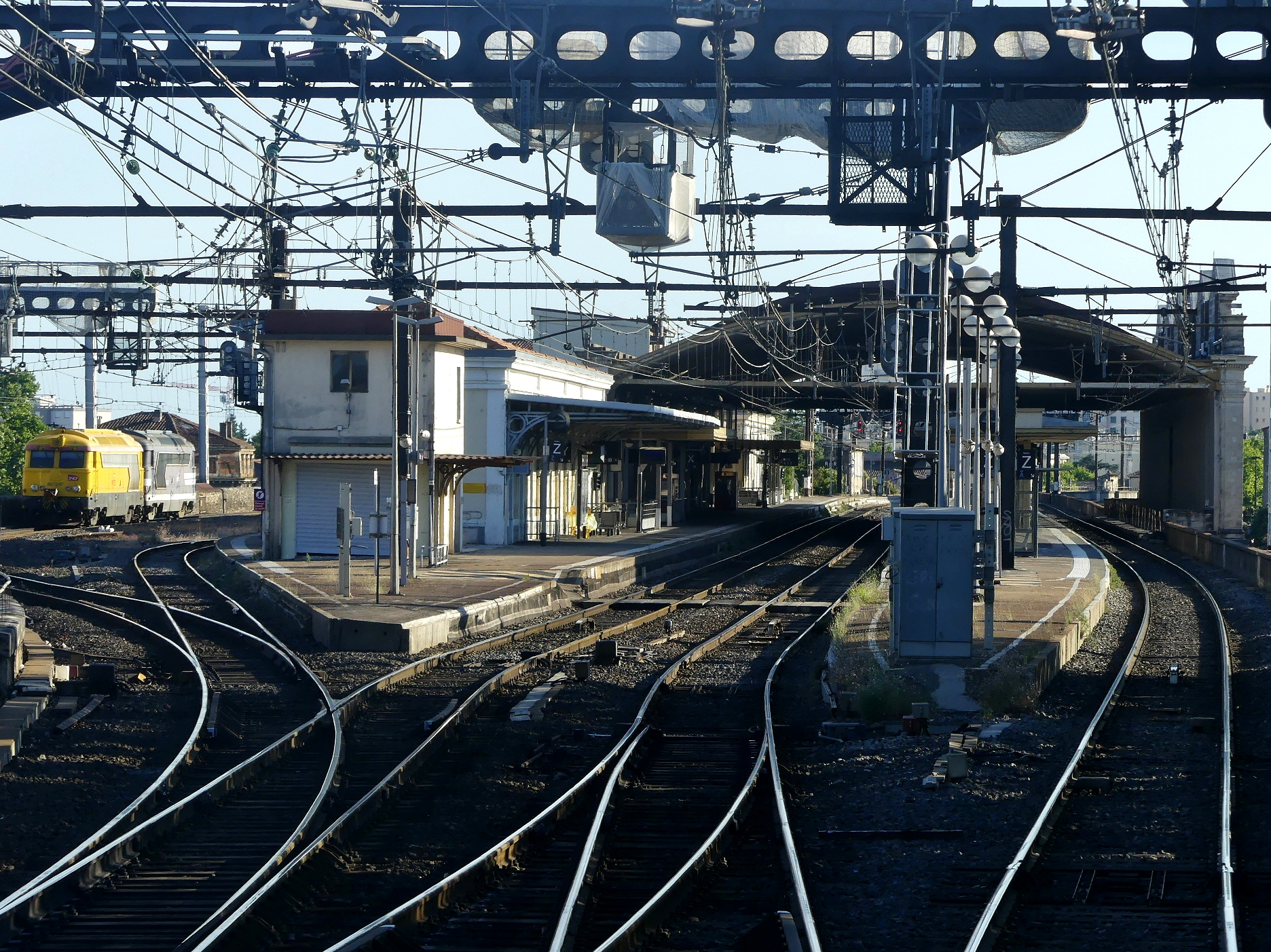 Sight, in the evening, of Nîmes railway station in the direction of Montpellier, in Gard, France.